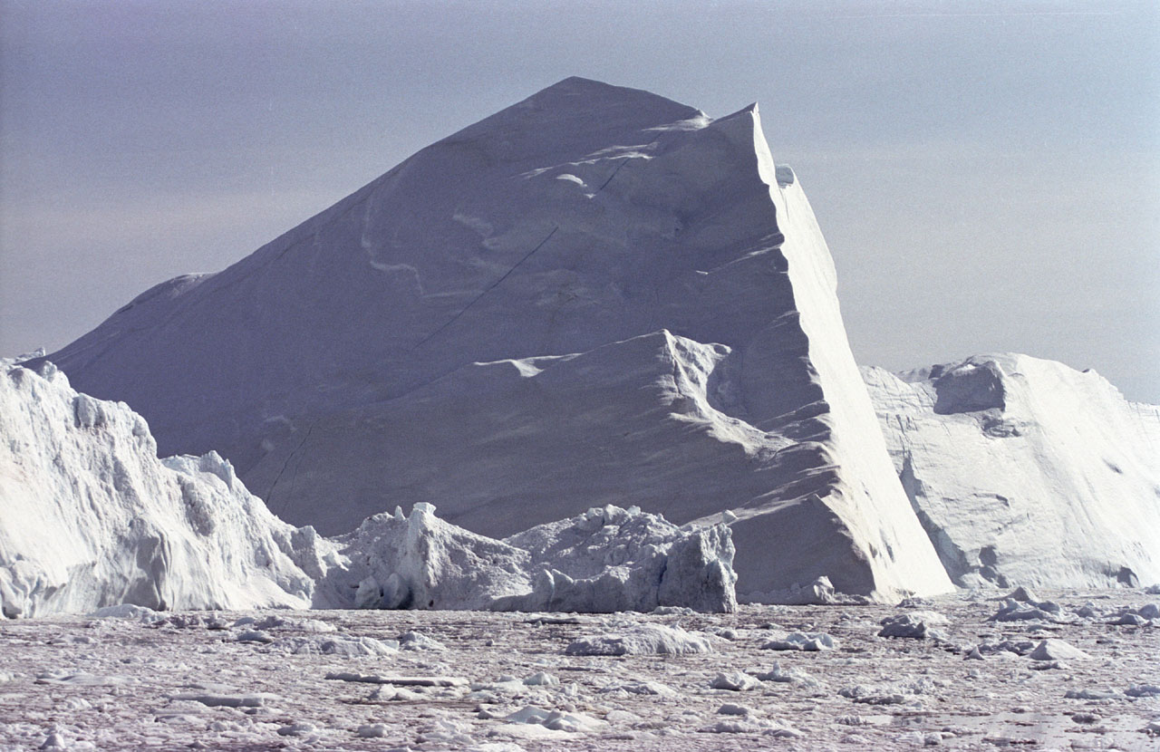 Isfjord, Ilulissat, Diskobay, West Greenland. Huge icebergs (up to 600 ft. high) and calv ice moving out of the Isfjord (Kangia) to the sea. In summer this movement is reaching a speed of 30 m. per day. July 1999, Position: 69° 10´ N, 50° 57´ W